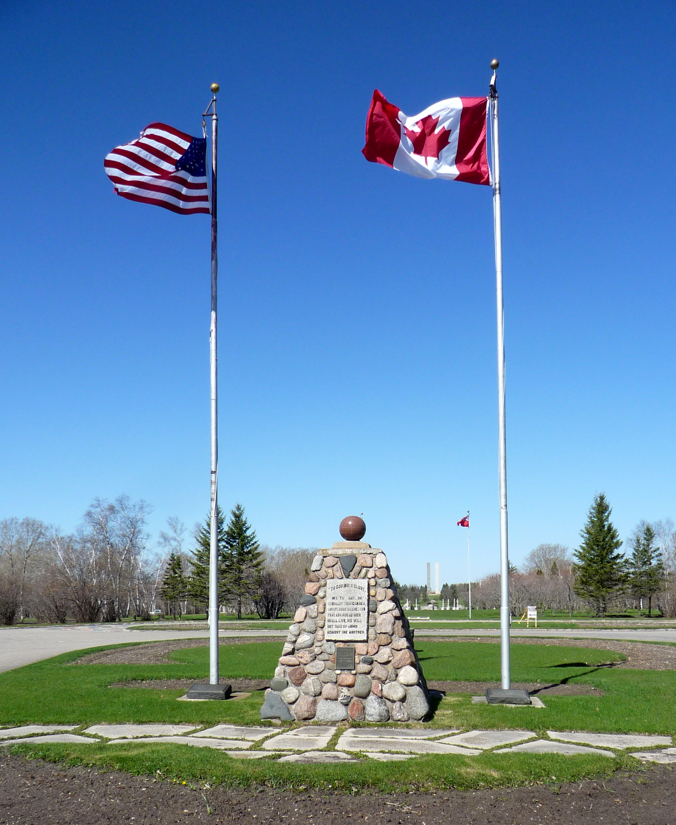 The original monument, at the entrance to the International Peace Garden, located on the border of North Dakota, United States, and Manitoba, Canada. The flags of both nations are seen flanking the monument, which is address to "To God In His Glory"; the Manitoba flag is in the background right, as well as the Peace Towers in the far background. The entire garden is based off of the international border, which can be drawn in a line between the ball at the top of the original monument to between the Peace Towers and beyond.